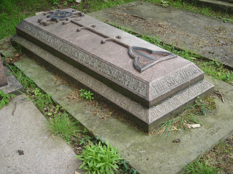 Augustus Wollaston Franks funerary monument, Kensal Green Cemetery, London